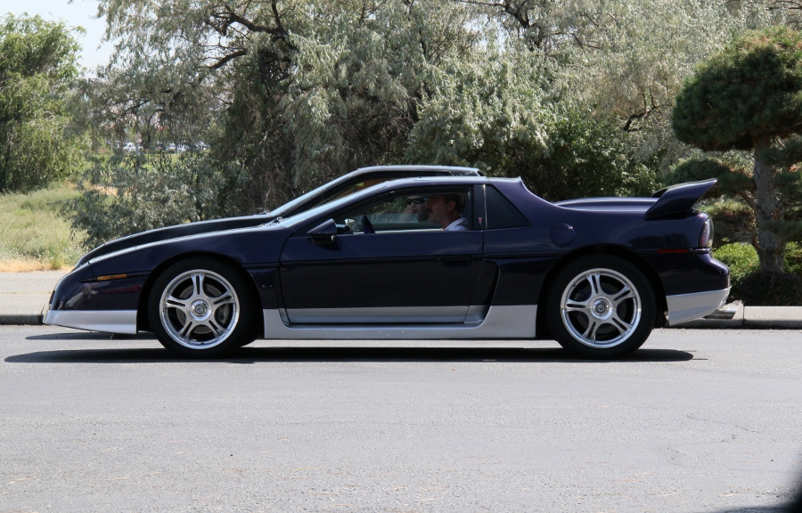 Chopping the top on a Fiero is a popular conversion.